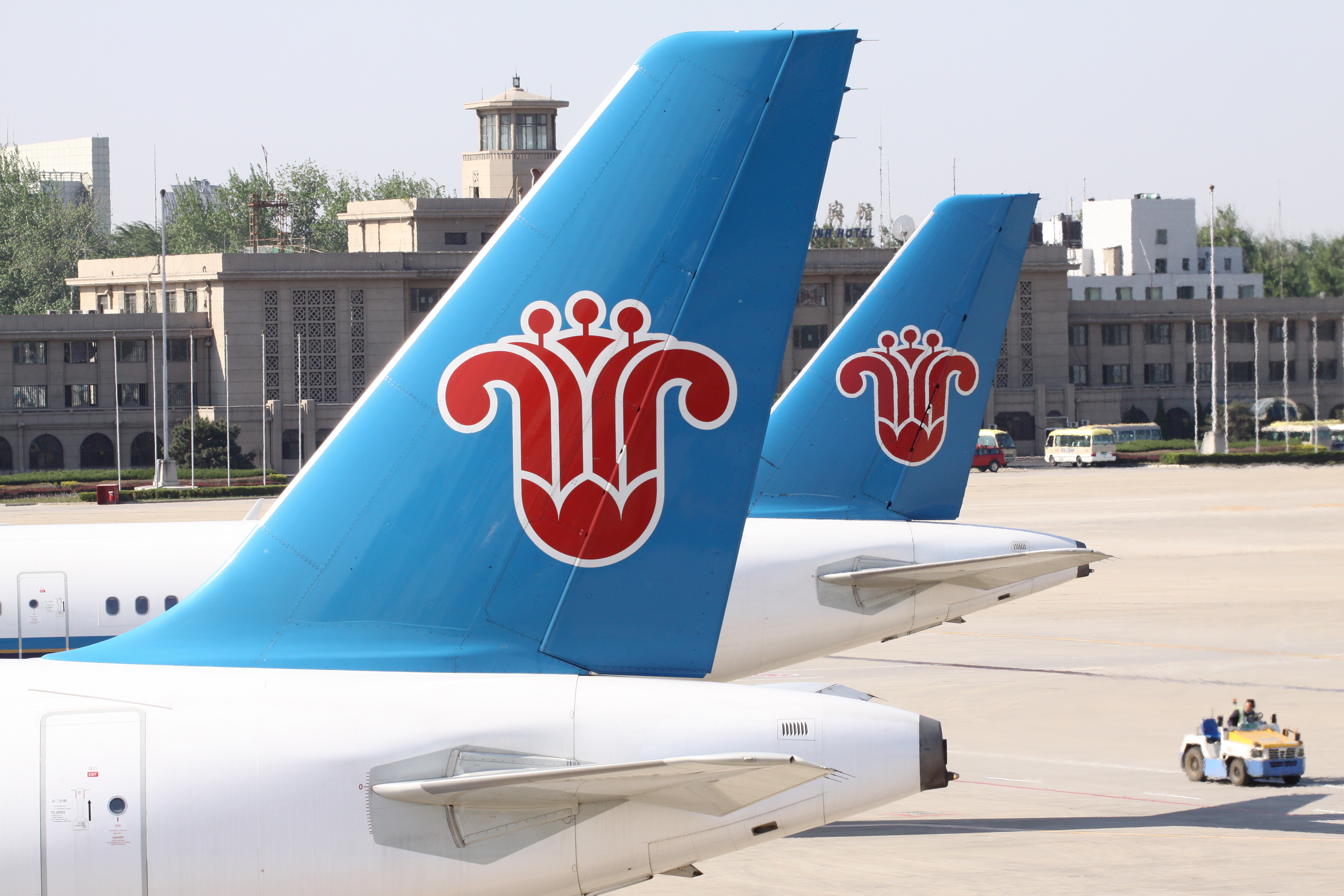 Beijing Capital Airport 中国南方航空(南航) China Southern Airlines